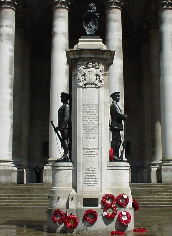 WW1 Memorial-Royal Exchange-London